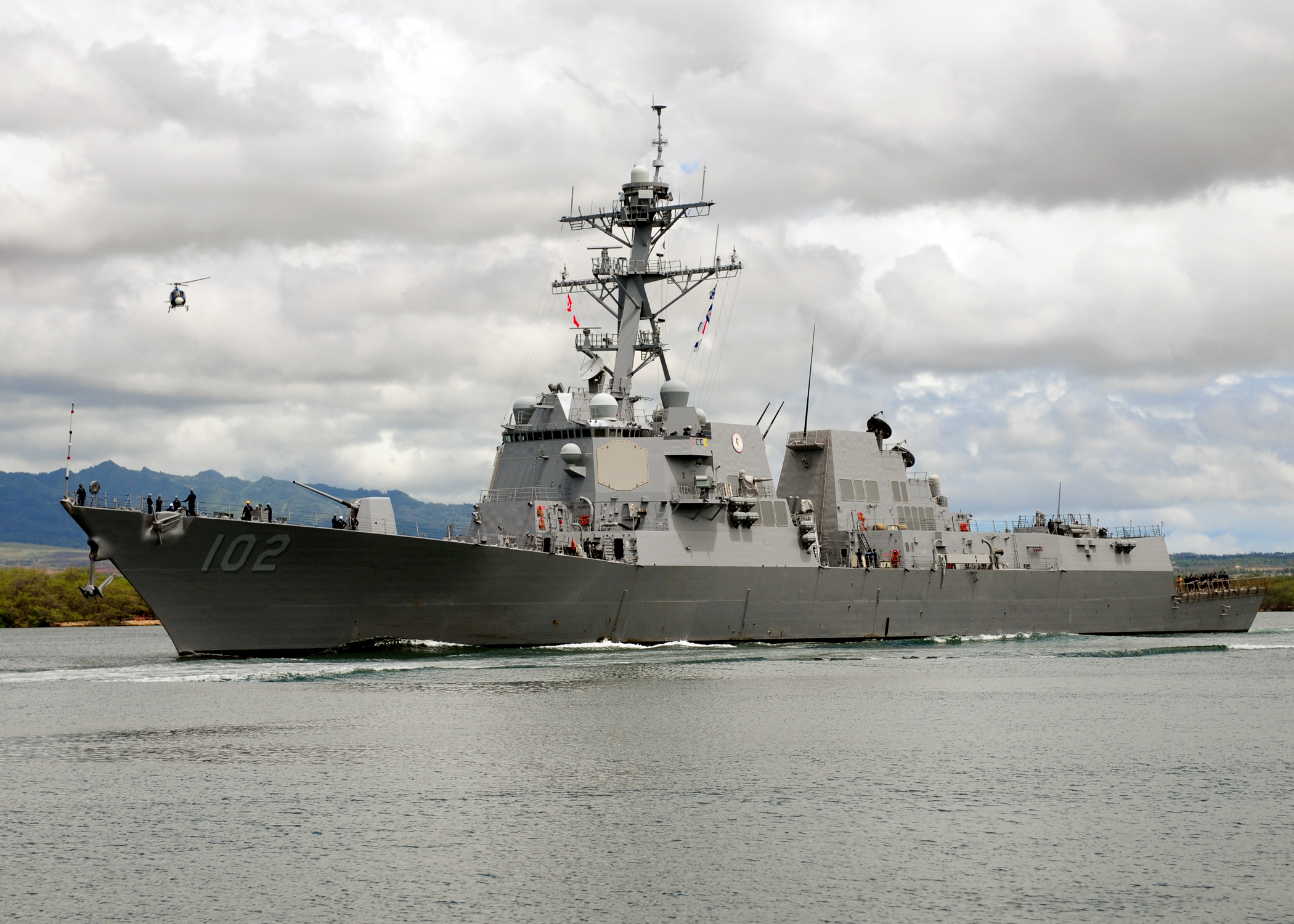 PEARL HARBOR (July 7, 2010) The Arleigh Burk-class guided-missile destroyer USS Sampson (DDG 102) departs Joint Base Pearl Harbor-Hickam to support Rim of the Pacific (RIMPAC) 2010 exercises. RIMPAC is a biennial, multinational exercise designed to strengthen regional partnerships and improve multinational interoperability. (U.S. Navy photo by Mass Communication Specialist 2nd Class Jon Dasbach/Released)